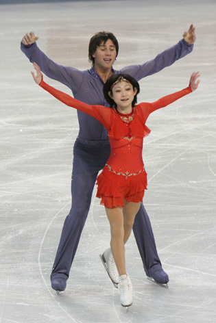 Yuko Kawaguchi and Alexander Smirnov at the 2010 European Figure Skating Championships.